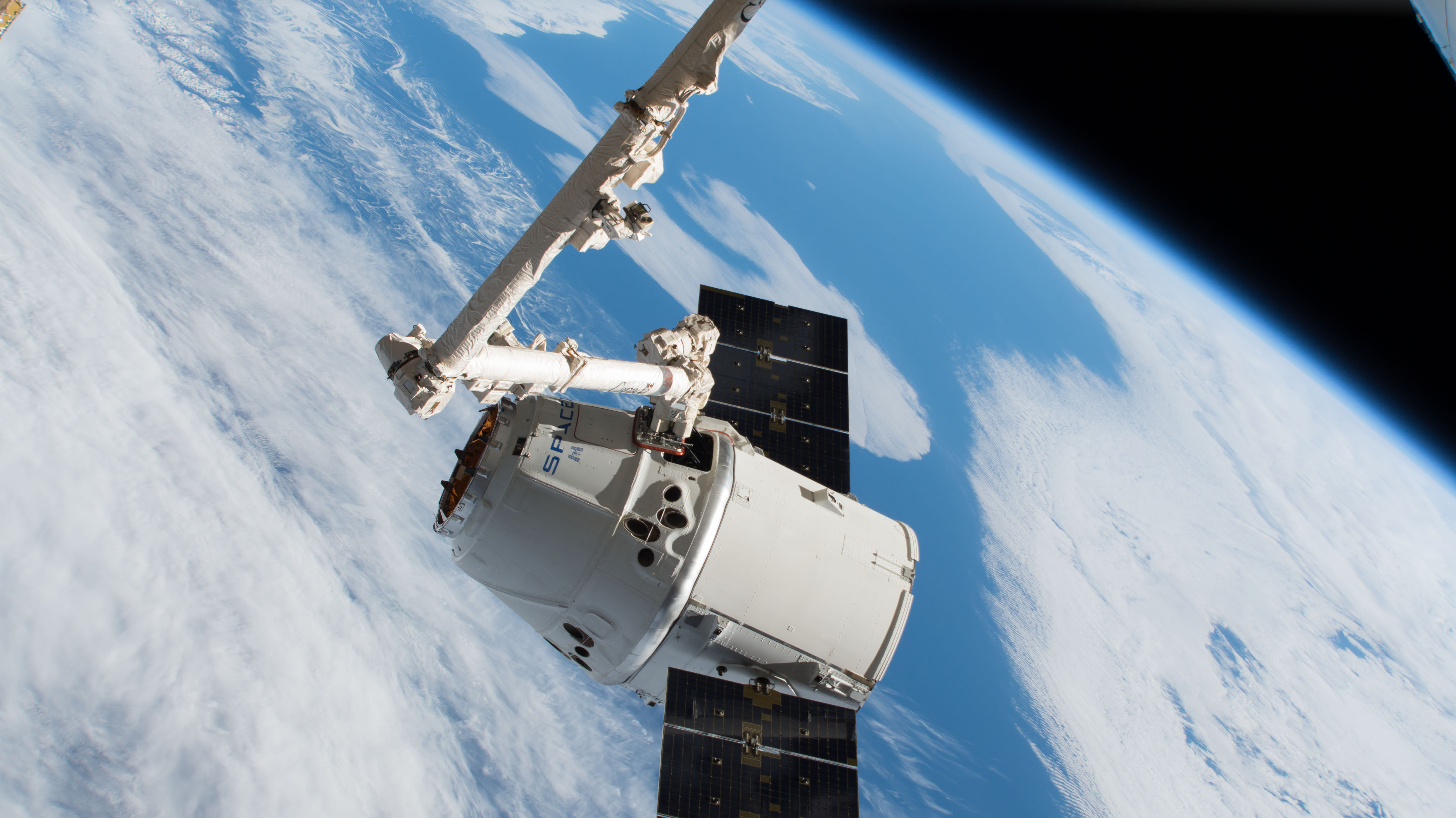 The SpaceX Dragon cargo craft is pictured moments after being captured with the Canadarm2 (the 57.7-foot-long robotic arm designed and built by the Canadian Space Agency) controlled by NASA astronaut Ricky Arnold as the International Space Station orbited over Quebec, Canada.